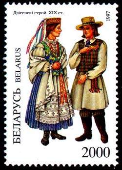 Drisnenski Stroj stamp